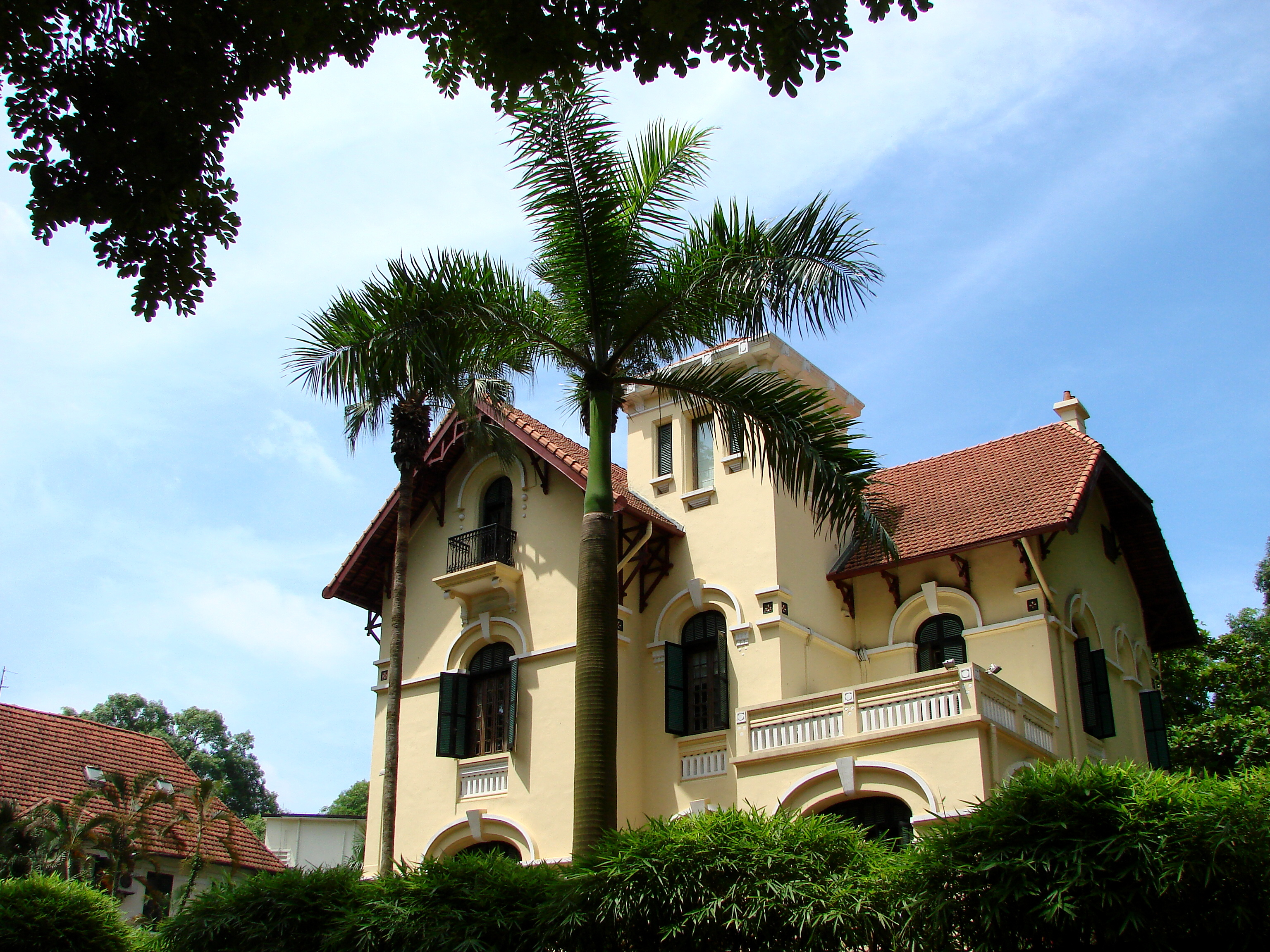 French colonial architecture in Hanoi, Vietnam. June 2009.